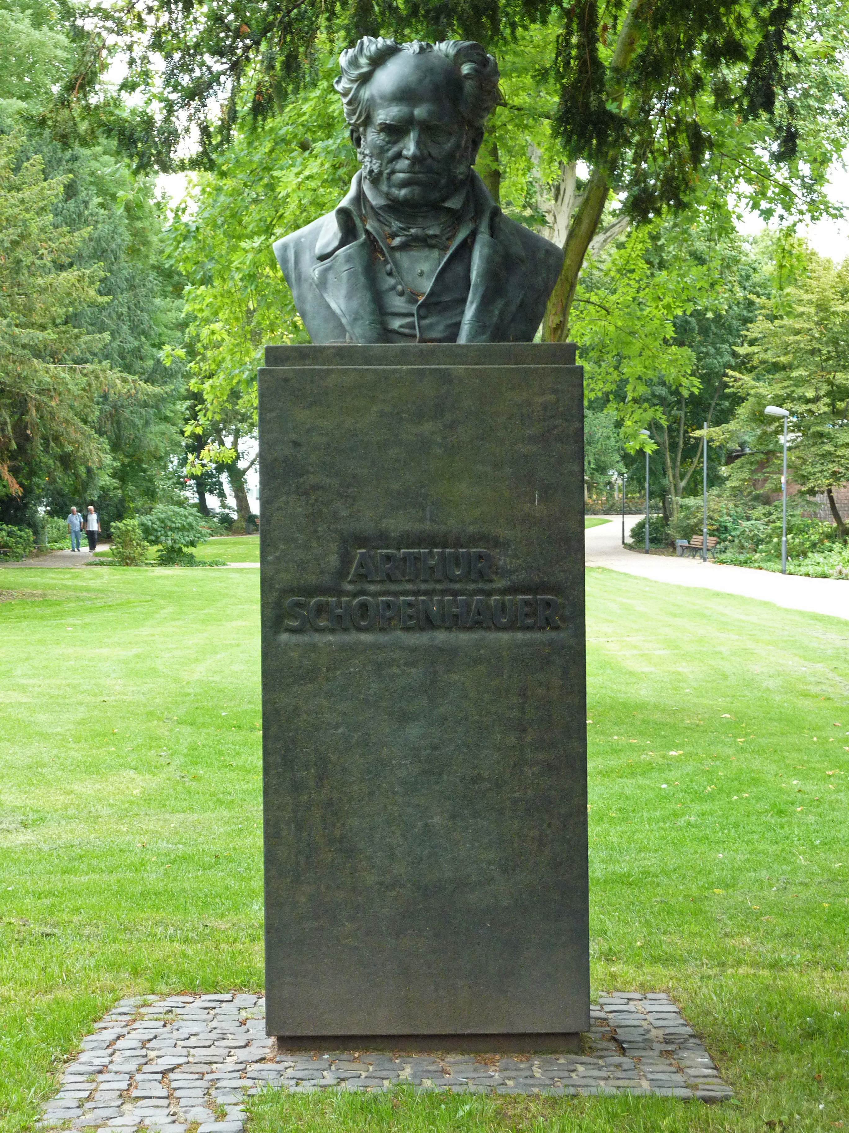 Frankfurt/M., Germany: Monument with bust of German philosopher Arthur Schopenhauer (1788–1860) in the city’s Wallanlagen park